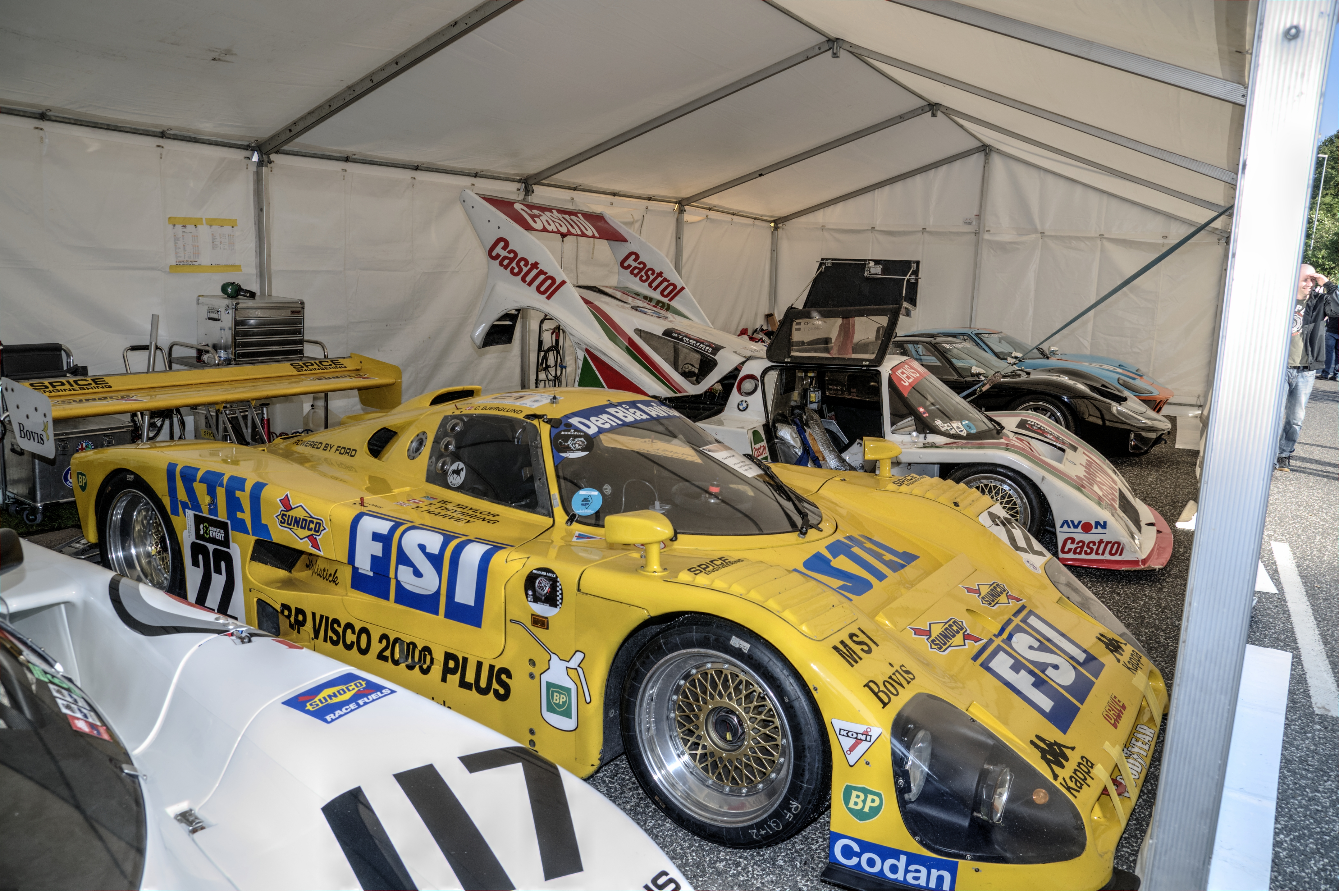 1989 Spice SE89C/Cosworth in the paddocks of the CRAA 2014 Classic Race in Aarhus, Denmark. Driver for this event was Claus Bjerglund, participating in the show-class "Le Mans & Prototypes" Originally driven by Thorkild Thyrring, Wayne Taylor and Tim Harvey for the Spice Engineering team in the 1989 World Sportscar Championship season (C1 class), including Le Mans, where they ended up with a DNF after 150 completed laps.